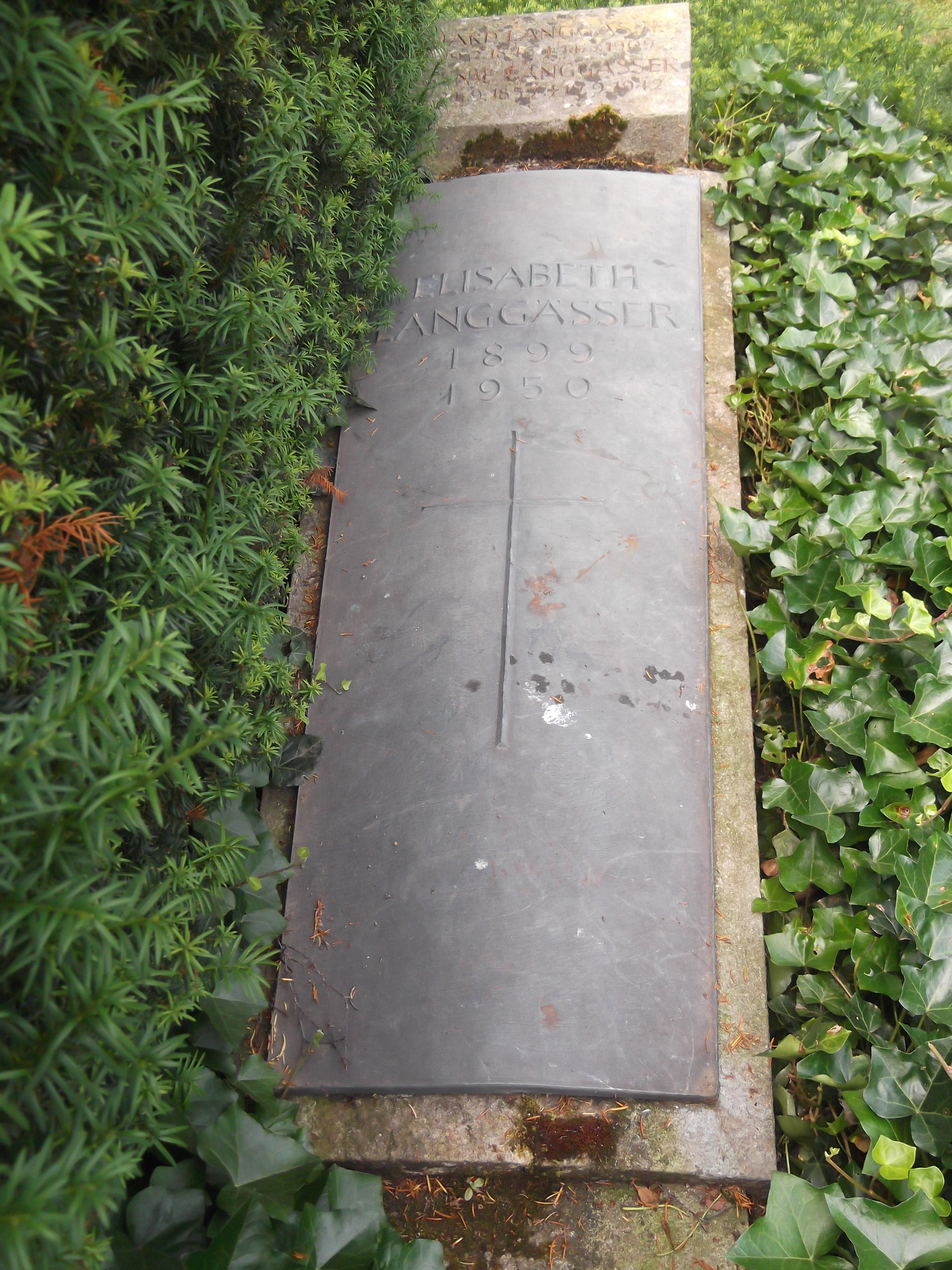 Tomb of German writer Langgässer in the "Alter Friedhof" in Darmstadt